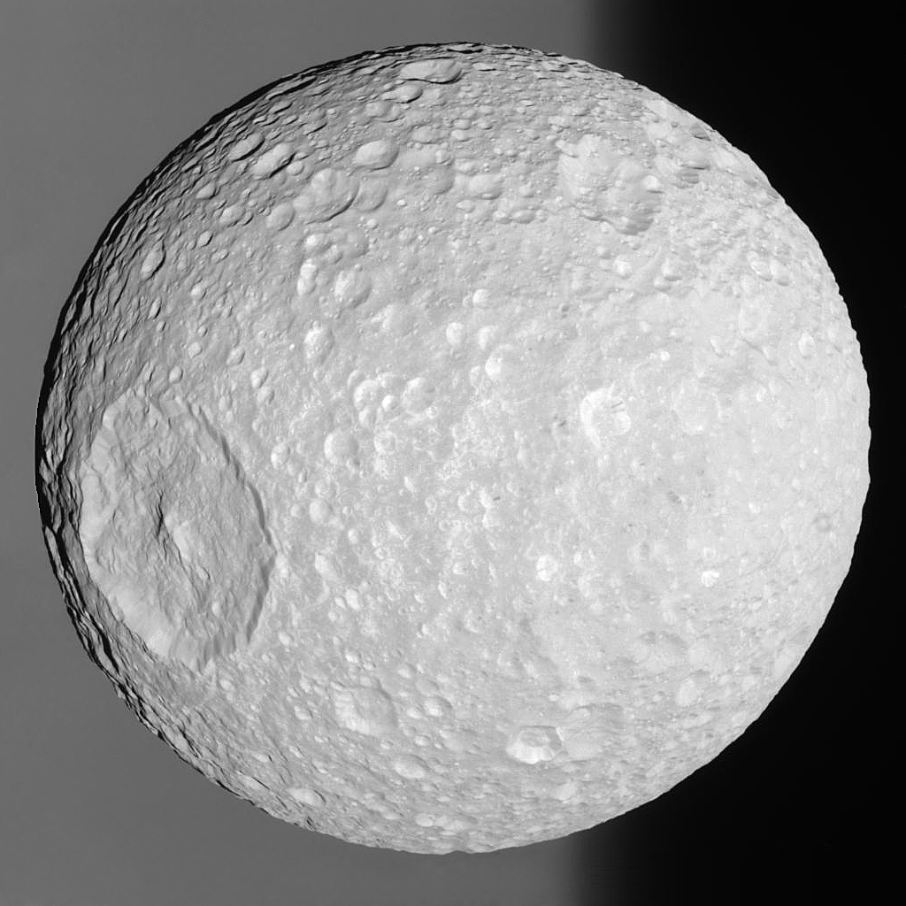 This raw, unprocessed image of Mimas was taken by Cassini on Feb. 13, 2010. The image was taken in visible green light with the Cassini spacecraft narrow-angle camera on Feb. 13, 2010. The view was obtained at a distance of approximately 70,000 kilometers (43,000 miles) from Mimas. Image scale is 418 meters (1,372 feet) per pixel. The Cassini Equinox Mission is a joint United States and European endeavor. The Jet Propulsion Laboratory, a division of the California Institute of Technology in Pasadena, manages the mission for NASA's Science Mission Directorate, Washington, D.C. The Cassini orbiter was designed, developed and assembled at JPL. The imaging team consists of scientists from the US, England, France, and Germany. The imaging operations center and team lead (Dr. C. Porco) are based at the Space Science Institute in Boulder, Colo. For more information about the Cassini Equinox Mission visit and The original NASA image has been modified by centering Mimas and increasing sharpness.